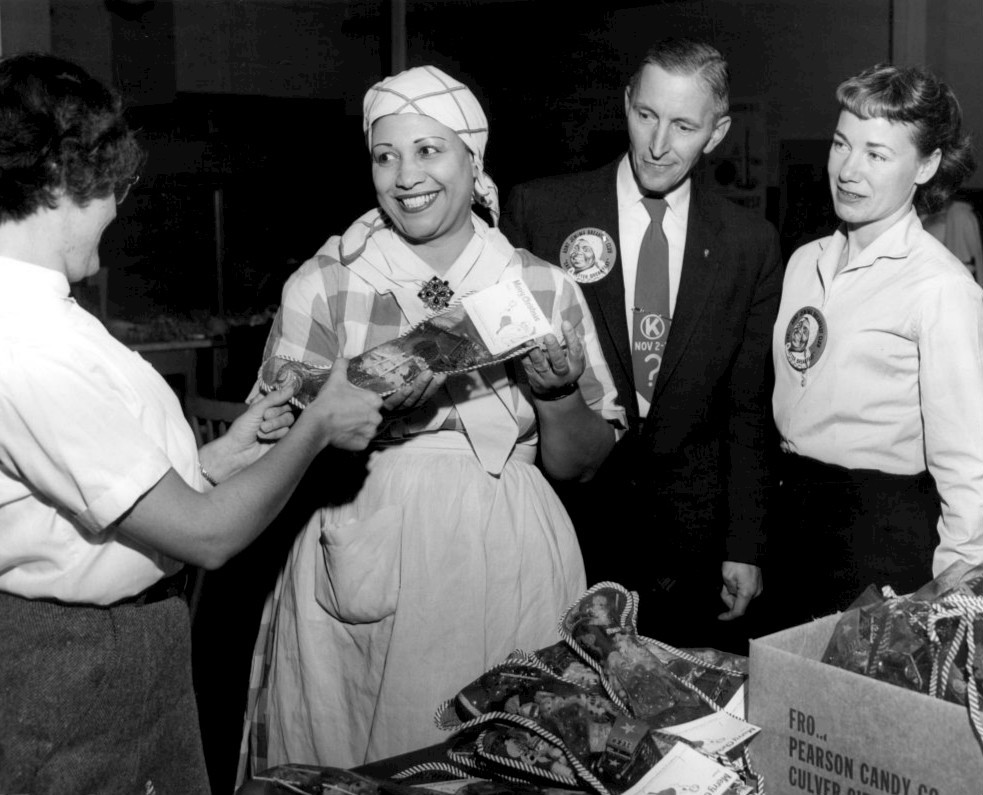 Photo of singer, actress and vaudeville performer Edith Wilson as Aunt Jemima at a personal appearance for the Seattle Kiwanis club's Pancake Festival.